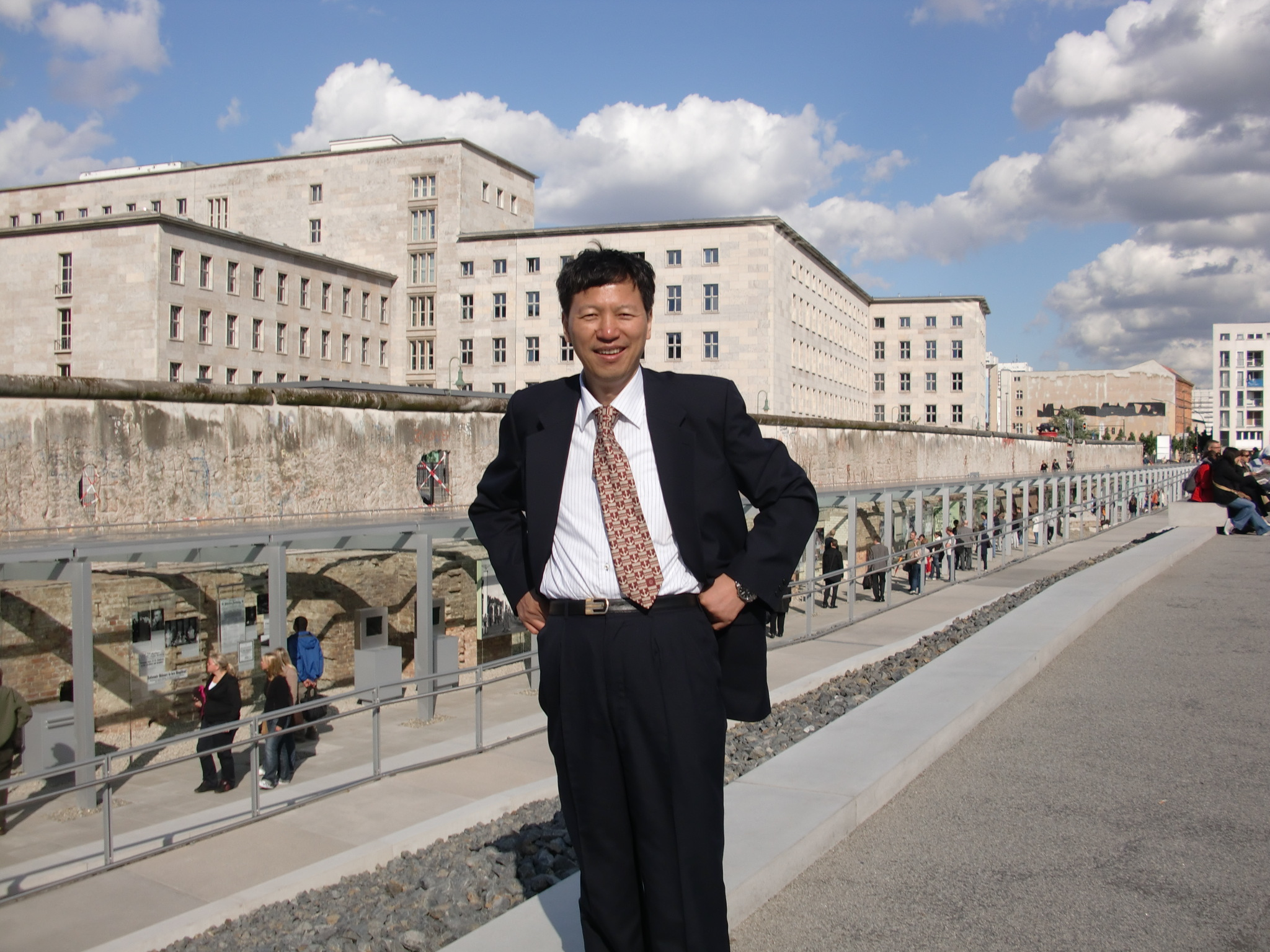 This is Professor Wu Jiandong